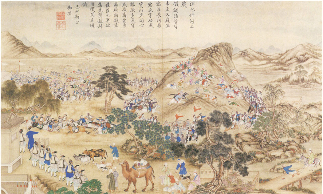 A scene of the Chinese Campaign against Rebels in the East turkestan, 1828